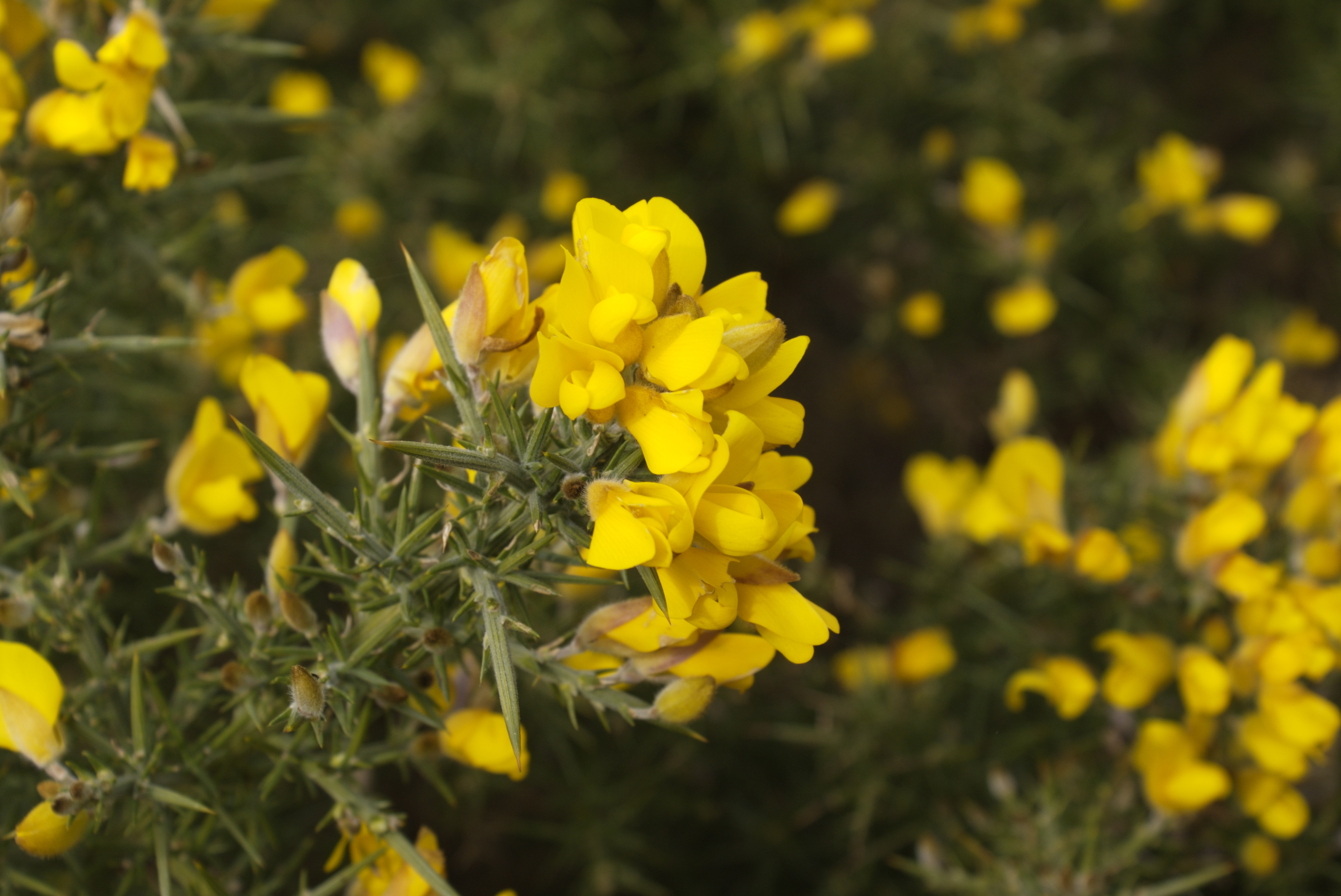 Flowering common gorse (Ulex europaeus) on Isle of Man